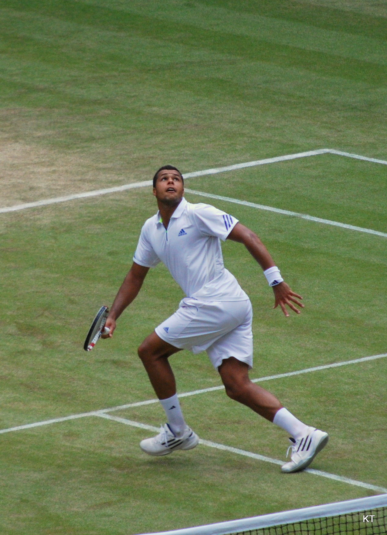 Jo-Wilfried Tsonga during his semi-final with Novak Djokovic . Djokovic won this 7-6, 6-2, 6-7, 6-3. Day 11 of Wimbledon 2011.